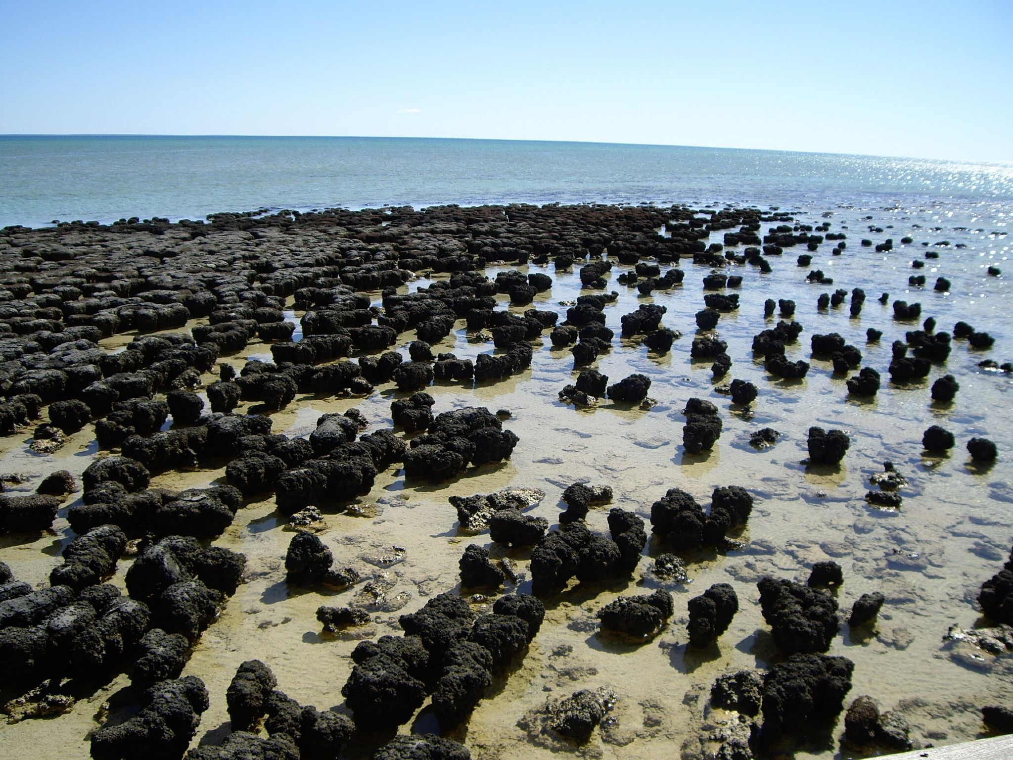 Hamelin Pool, on the way to Monkey Mia. They're responsible for a lot of the Earth's oxygen and the evolution of oxygen breathing lifeforms ie, us.